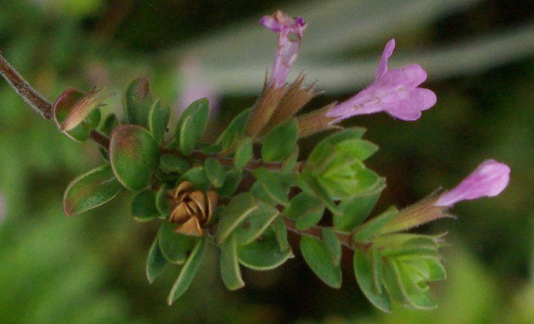 Detail from leaves and flowers of Micromeria Glomerata